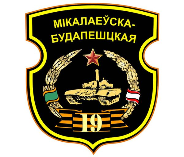 19th Guards Mechanized Brigade (Belarus) insignia